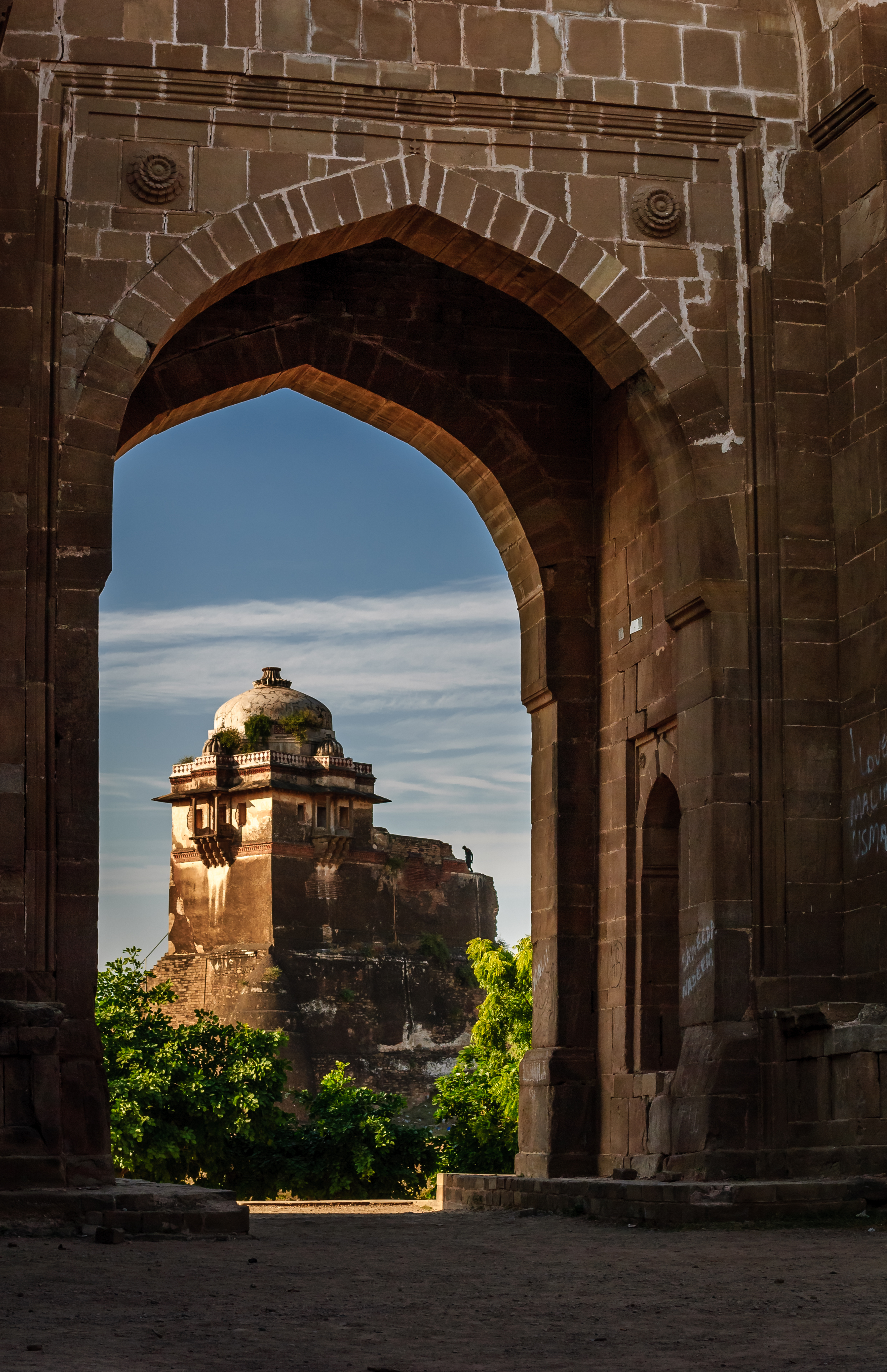 Rohtas Fort This is a photo of a monument in Pakistan identified as the PB-30